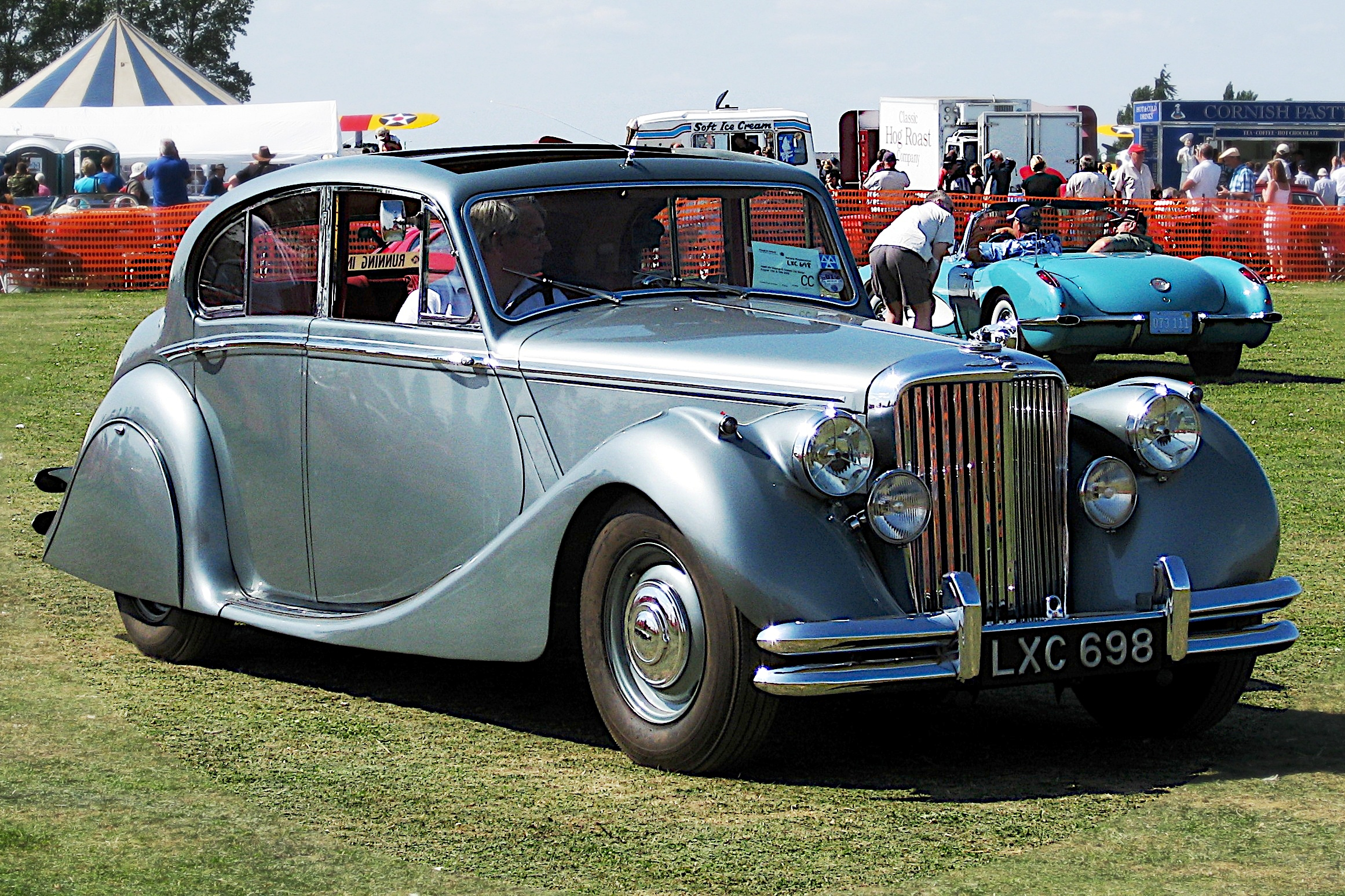 Jaguar Mark V 1950